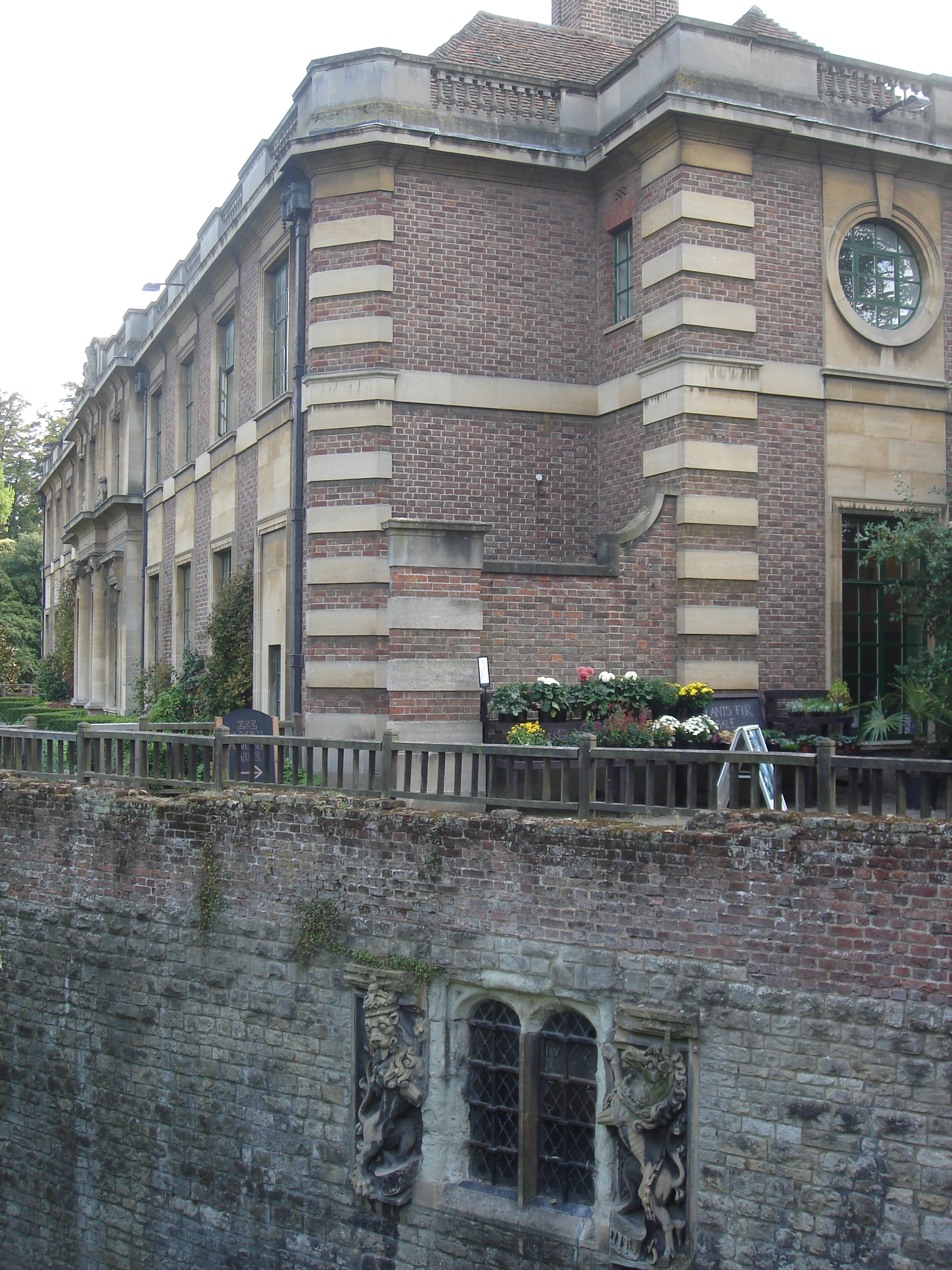 Eltham Palace, London